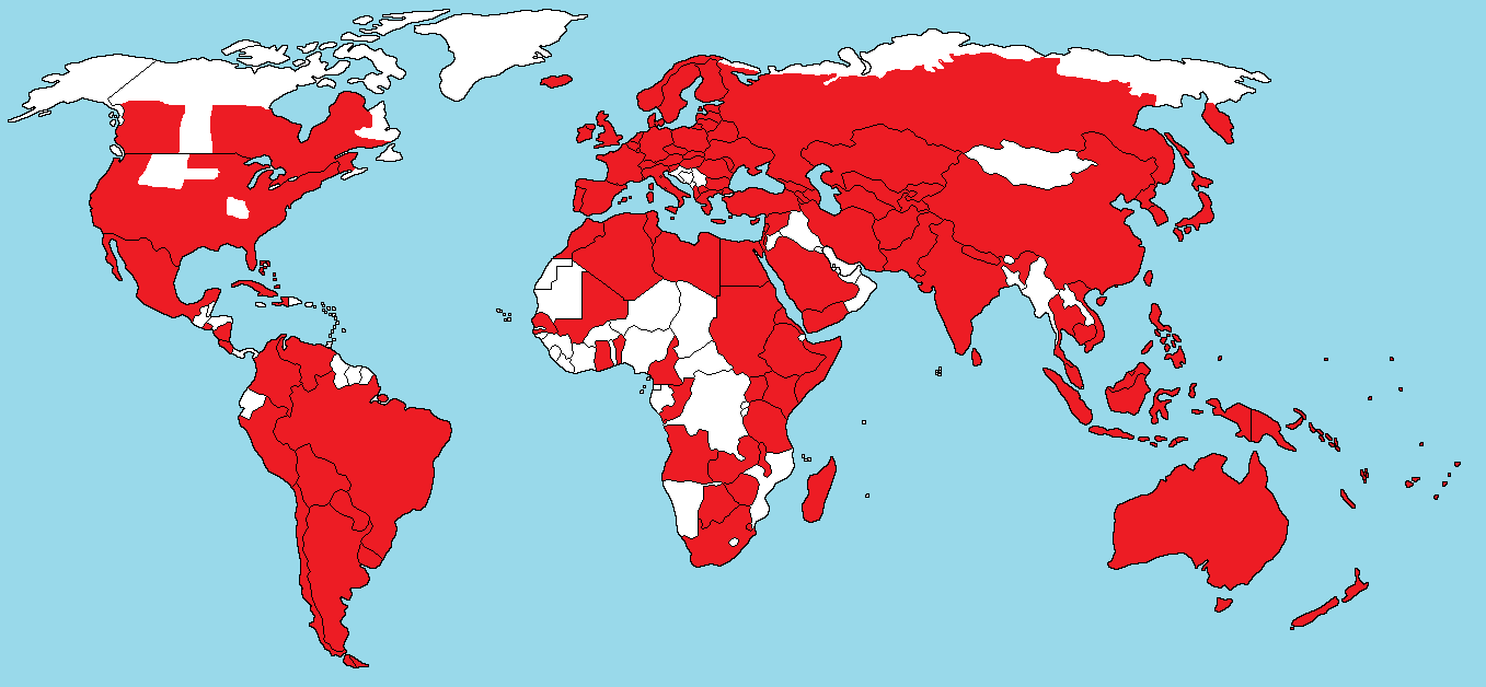 Biogreographical distribution of P. xylostella based on You et al (2013) graphic achieved by using data from publications and geographical position of P. xylostella genome secuenced strains. Furlong, M. J., Wright, D. J., & Dosdall, L. M. (2013). Diamondback moth ecology and management: problems, progress, and prospects. Annual Review of Entomology, 58, 517-541 You, M., Yue, Z., He, W., Yang, X., Yang, G., Xie, M., ... & Wang, J. (2013). A heterozygous moth genome provides insights into herbivory and detoxification. Nature genetics, 45(2), 220-225.